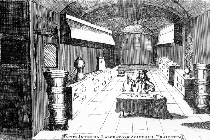 Johann Conrad Barchusen (1666-1723) in his laboratory on Sonnenborgh in Utrecht, Belgium (from his book ELEMENTA CHEMIAE, quibus subincta est confectura lapidis philosophici imaginibus repraesentata. Theodorum Haak, Lugduni Batavorum 1718)